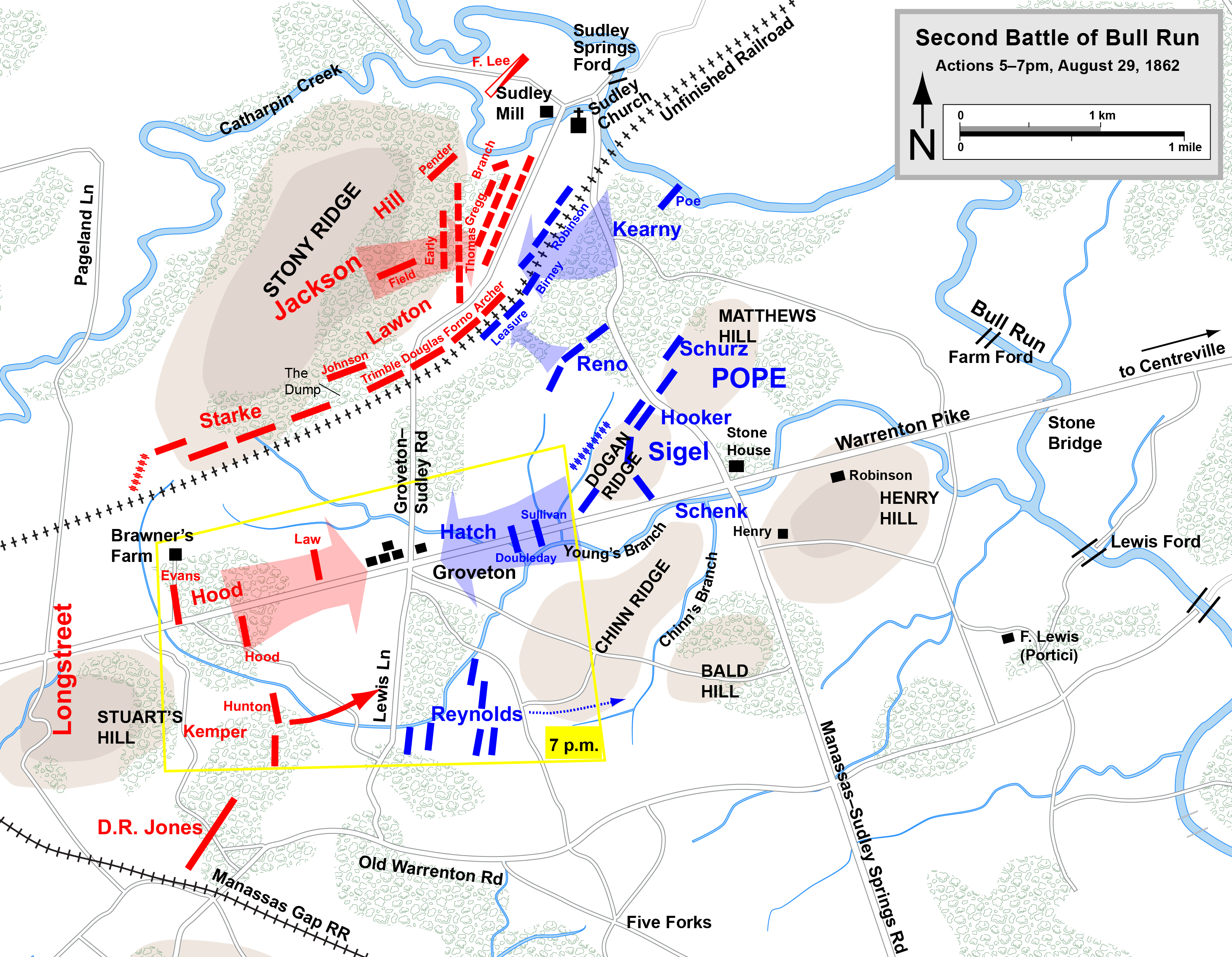 Map of the Second Battle of Bull Run of the American Civil War